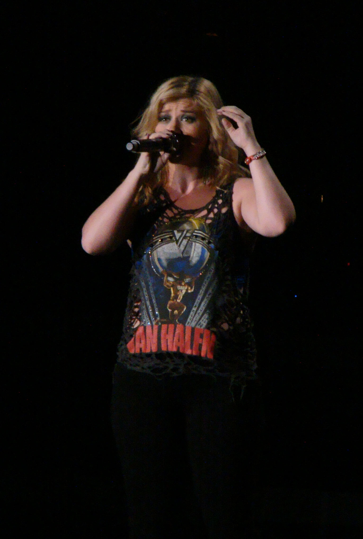 Kelly performing live Manchester, England. October 12, 2012